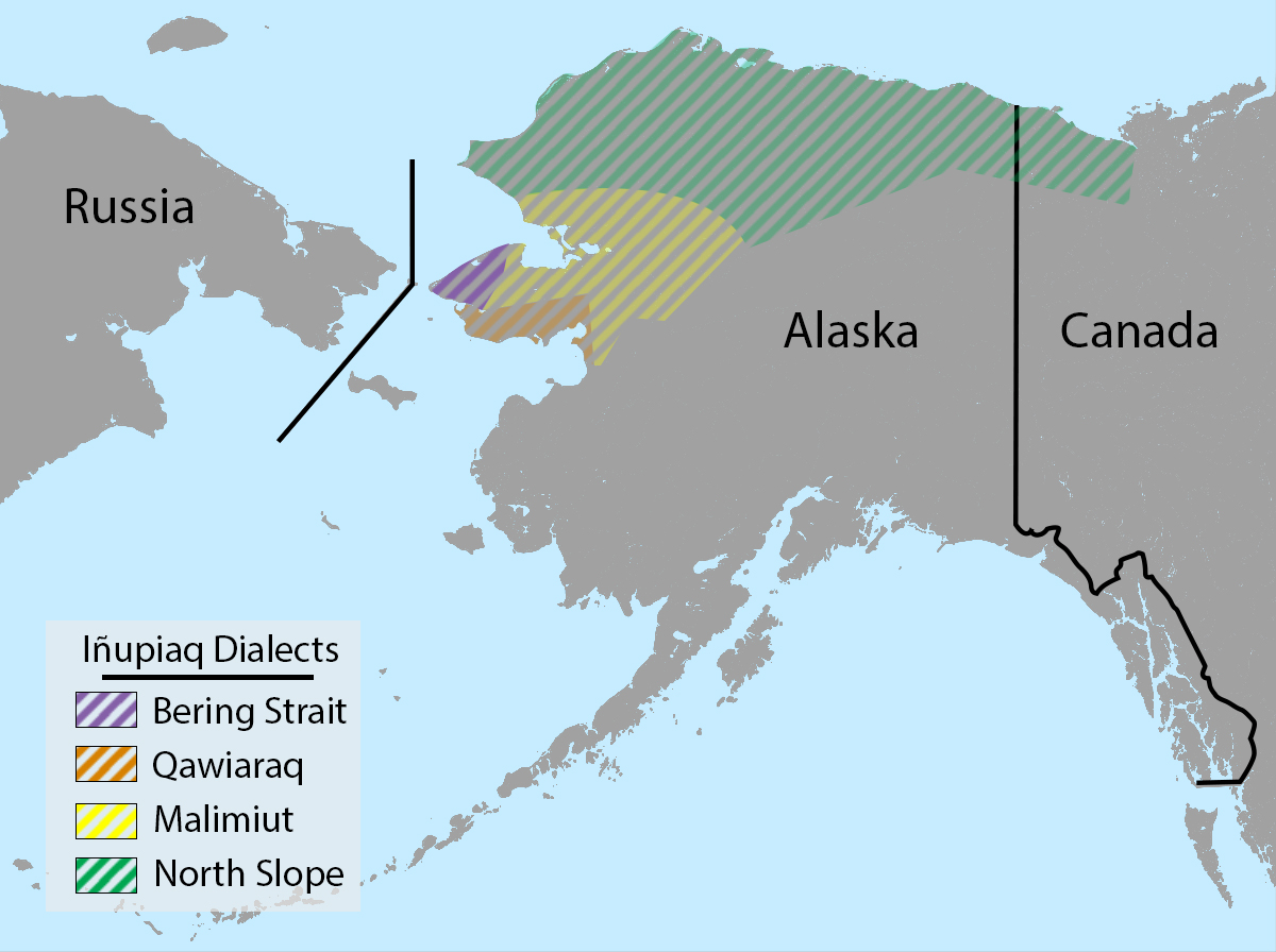 Original map of Alaska was published by user Alexrk2 Dialect boundaries and graphics where created by user Stefan.p Dialect information is from: MacLean, Edna Ahgeak. Beginning North Slope Iñupiaq Grammar. Fairbanks, Alaska: Alaska Native Language Center, University of Alaska, 1979.